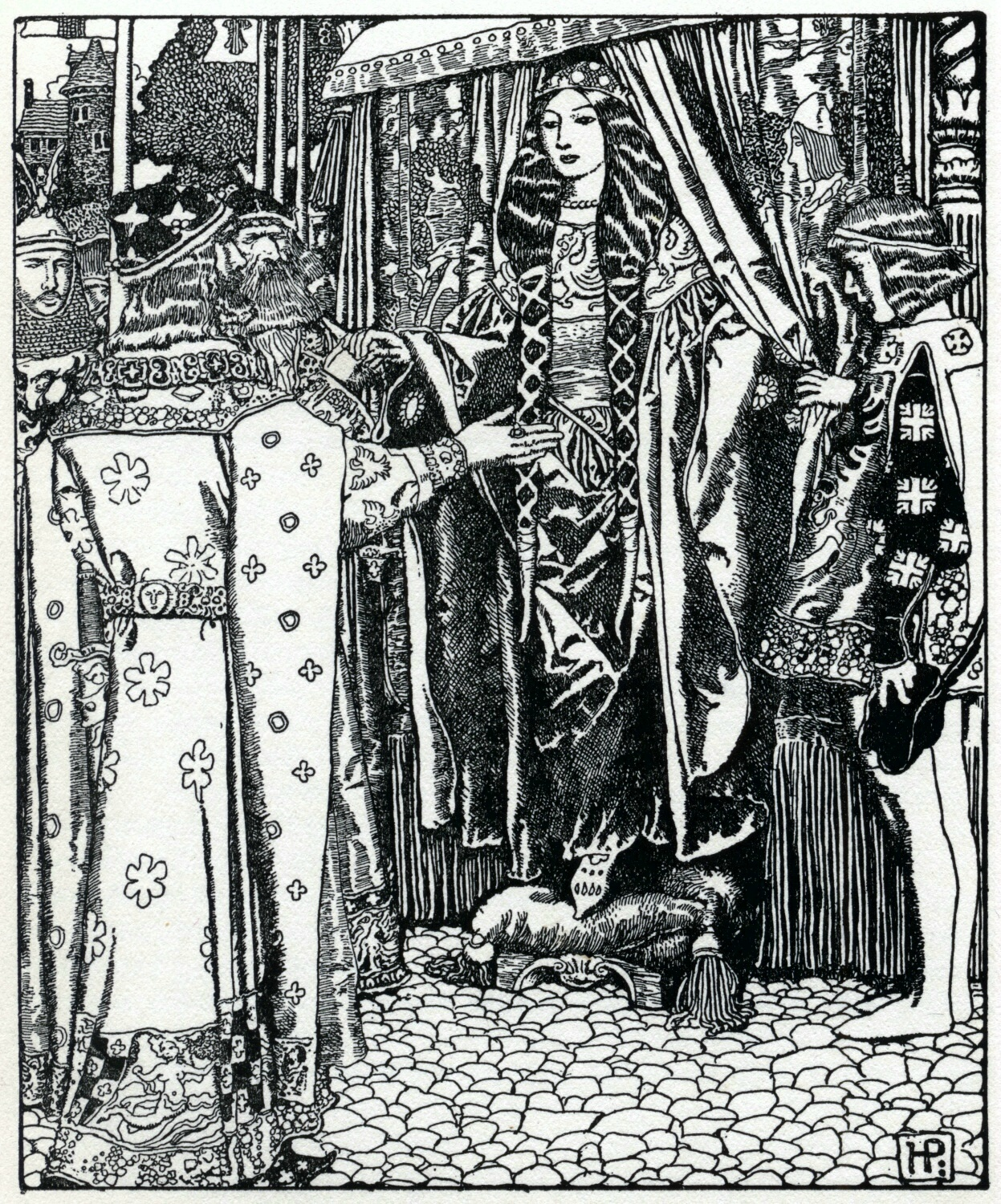 Howard Pyle illustration from the 1903 edition of The Story of King Arthur and His Knights scanned and archived at where it was marked as Public Domain.